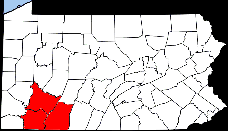 altered version of (Public domain map courtesy of The General Libraries, The University of Texas at Austin, modified to show counties relevant to article. Released under GFDL. See Wikipedia:U.S. county maps.)